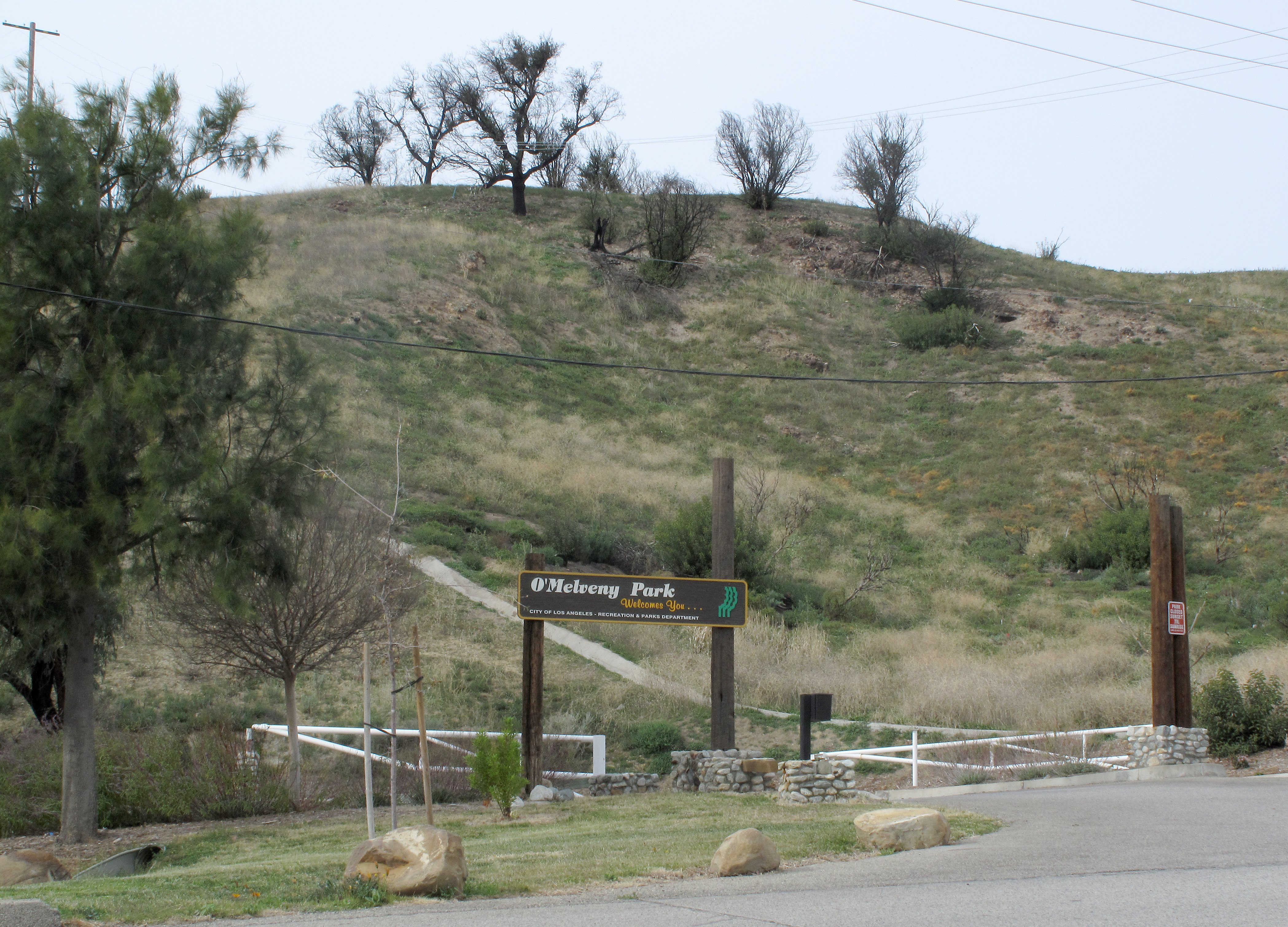 Entrance to O'Melveny Park in the San Fernando Valley. It is the second largest park in the City of Los Angeles, California.